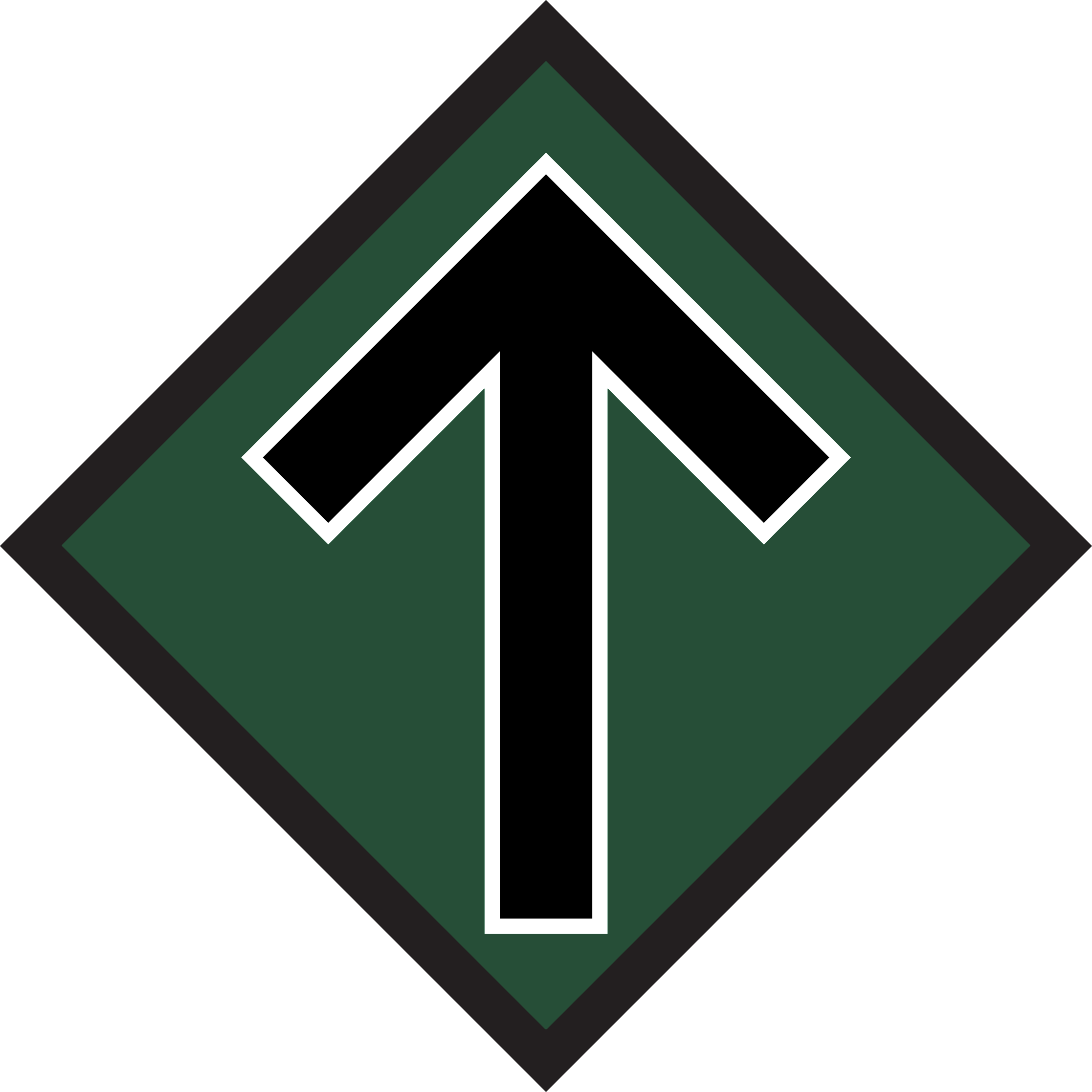 This is the logo of Swedish, Norwegian, Finnish and Danish Resistance movements.